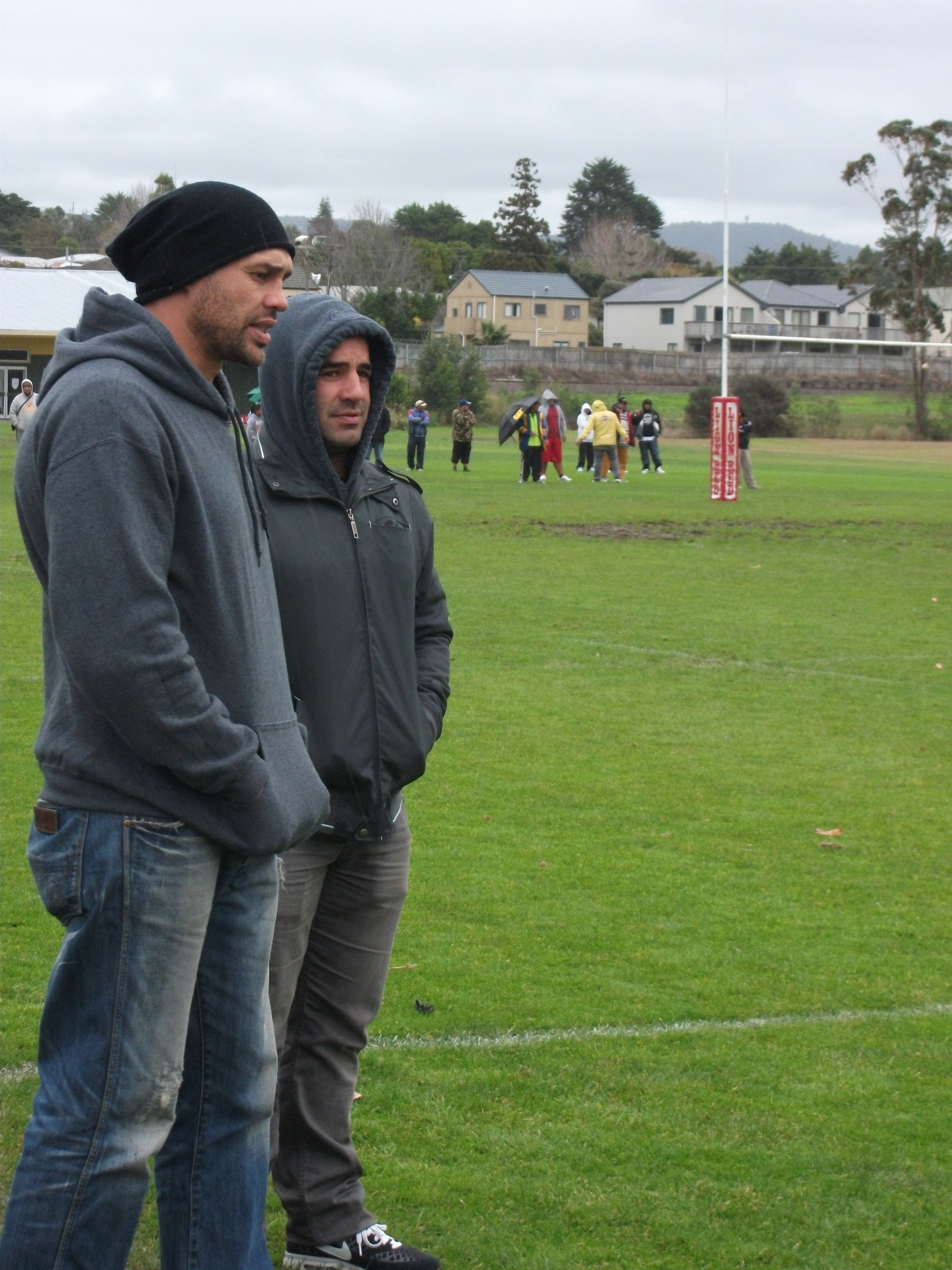 Stacey Jones and Awen Guttenbeil coaching the Pt Chev Pirates in 2010. Taken at the Pt Chev v Waitemata Seagulls Phelan Shield match.